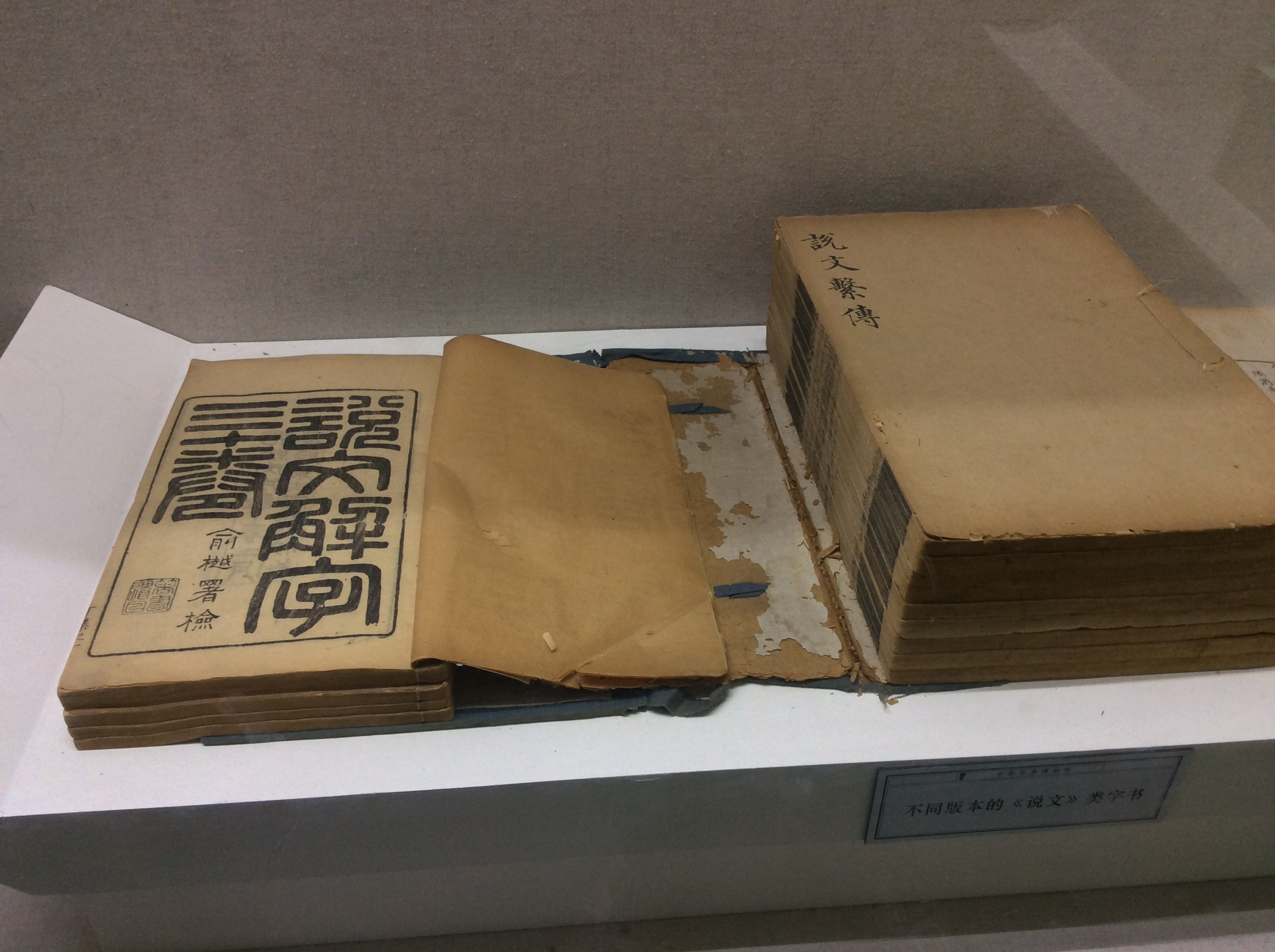 Shuowen Jiezi exhibit in the Chinese Dictionary Museum, on the grounds of Huangcheng Xiangfu